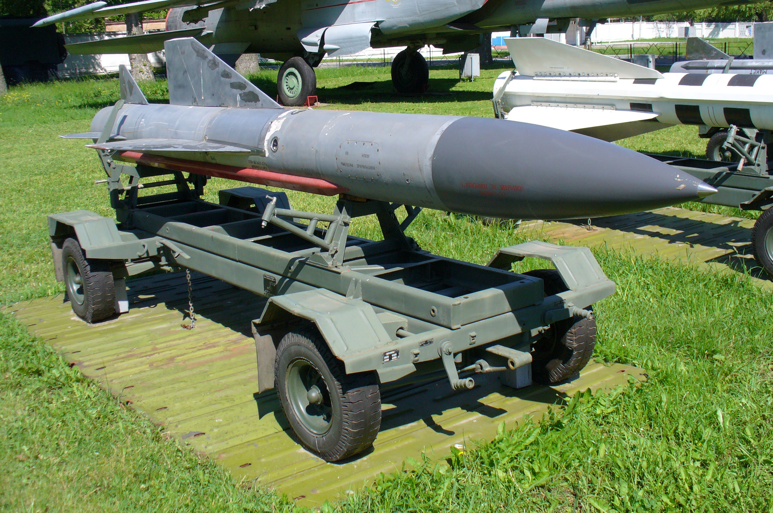 AS-11 Kilter. Ukrainian Air Force Museum in Vinnitsa.